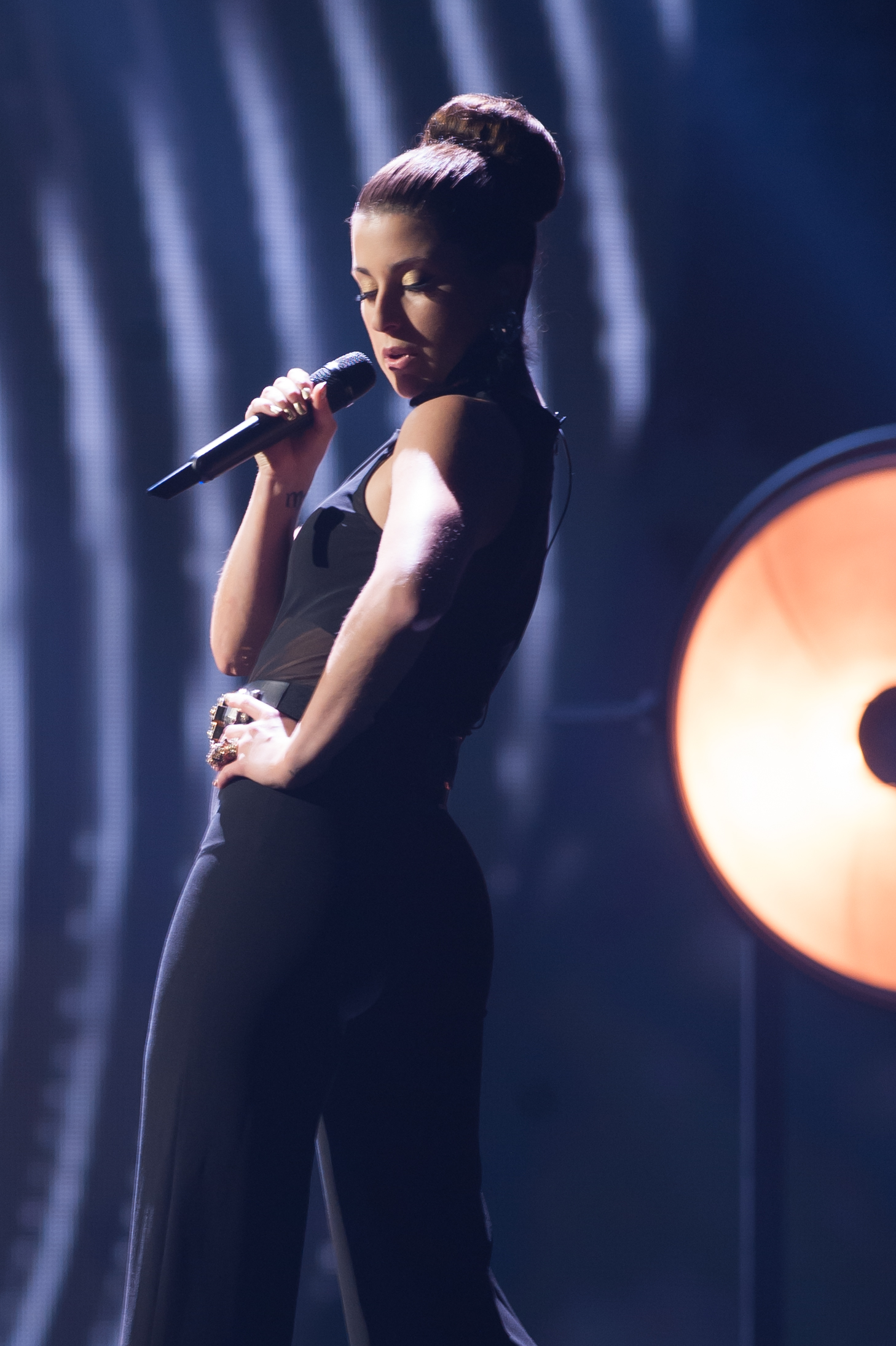 Eurovision Song Contest Vienna 2015: Ann Sophie